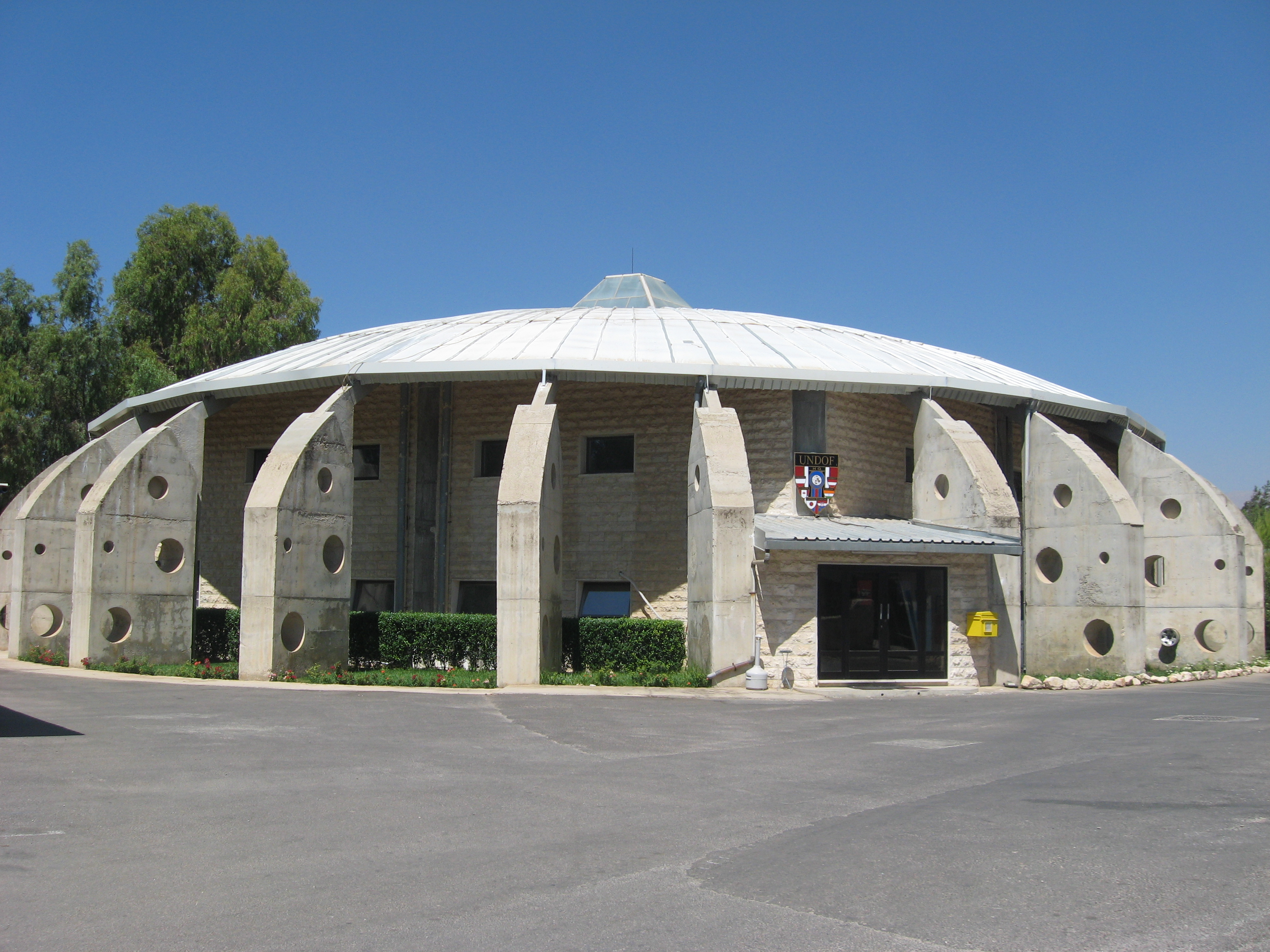 UNDOF HQ building in Camp Faouar